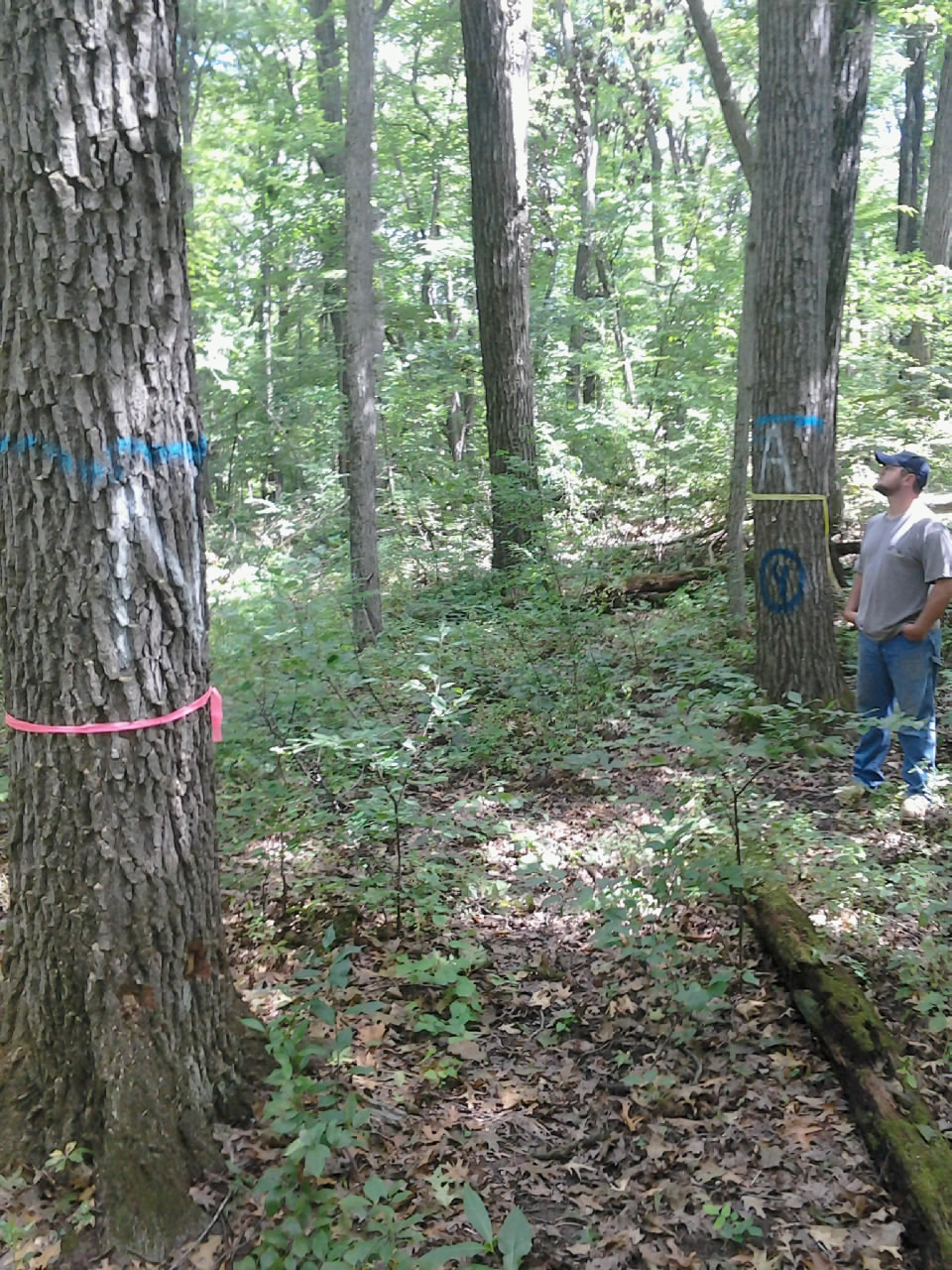 Part of South Flank of 7-1-2011 windstorm was St. Croix County, Wisconsin